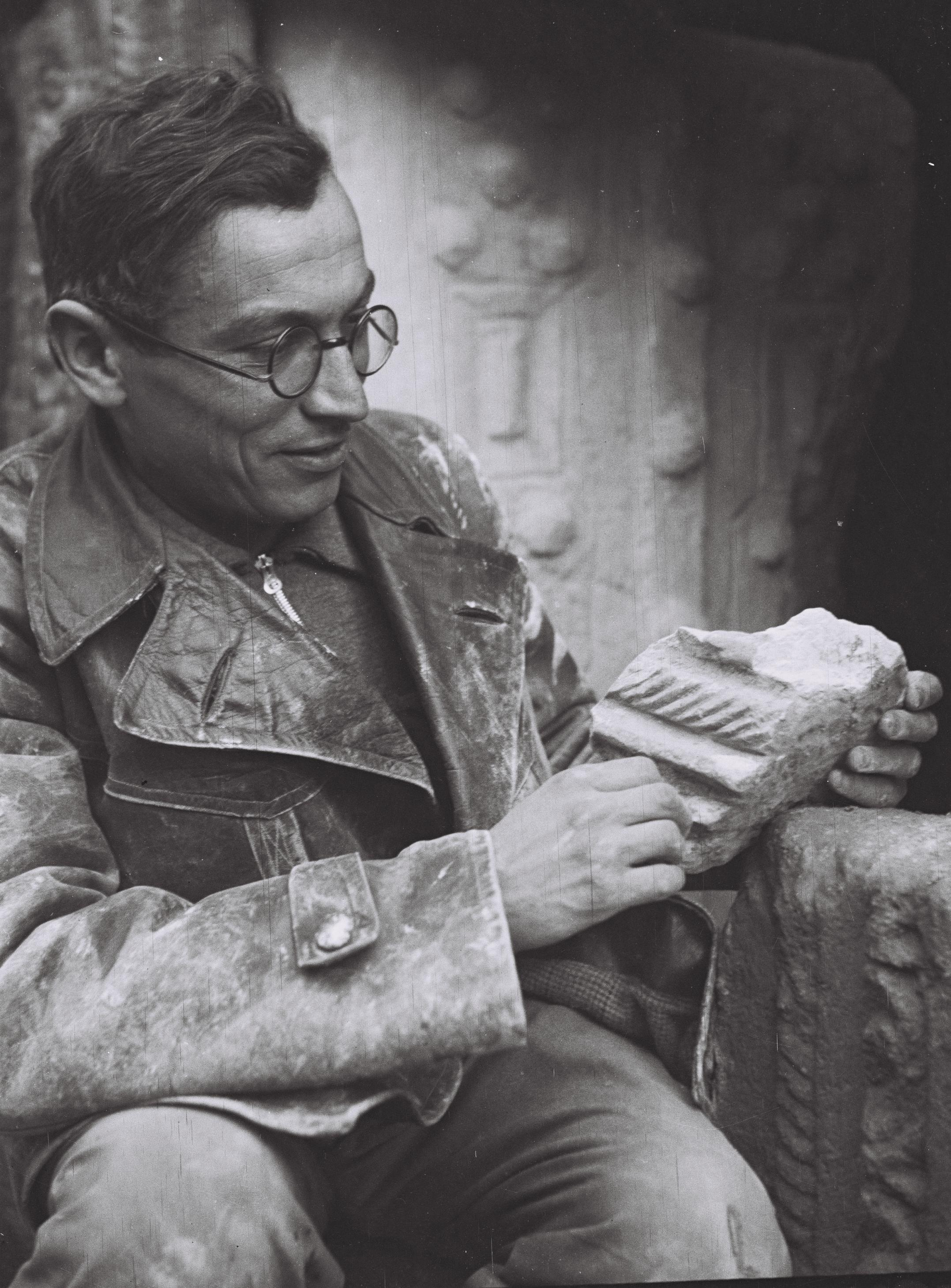 Original Description: ARCHEOLOGIST BINYAMIN MAZAR IN THE EXCAVATIONS OF BEIT SHEARIM.